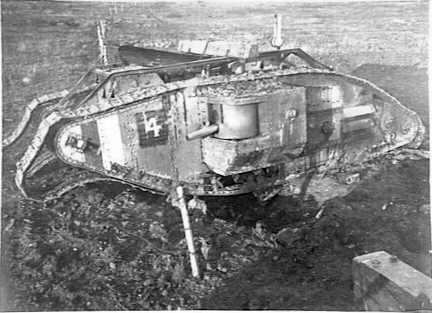 AWM caption : "Ronssoy, France. 30 September 1918. One of a number of tanks disabled by land mines in the fighting near Duncan Post, in the Ronssoy area." Comment : The tank is a Mk V male. The mines consisted of obsolete 2 inch mortar bombs. The British had laid the minefields earlier in 1918 before they withdrew from the area. see also : Image:MkVTankDisabledBy2inchMortarBombRonssoy3October1918.jpg